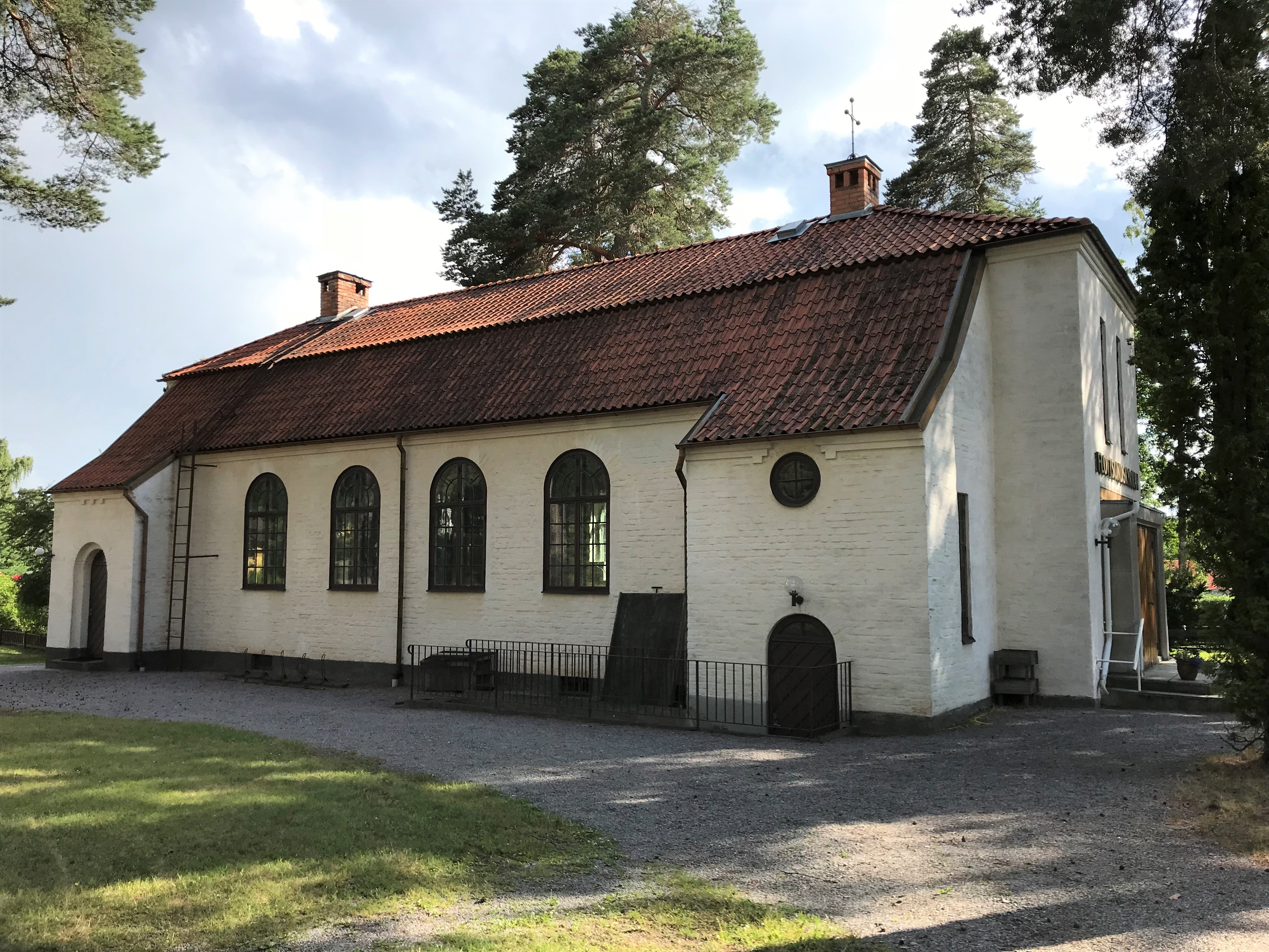 Flottsundskyrkan in Flottsund, Uppsala, July 2019